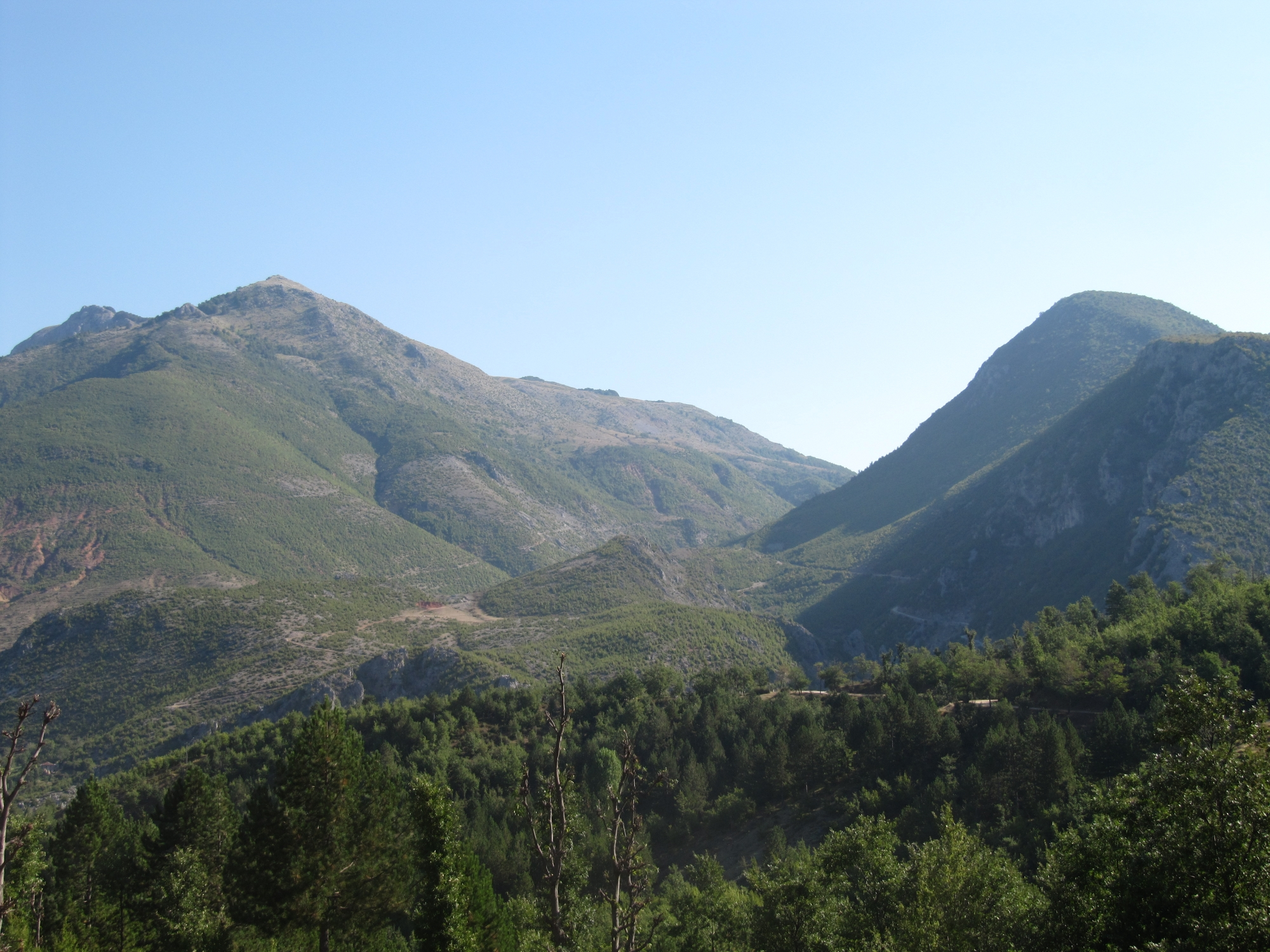 Valley near Llange. On the periphery of the Shebenik-Jabllanice Park, looking towards the village of Llange, Albania.